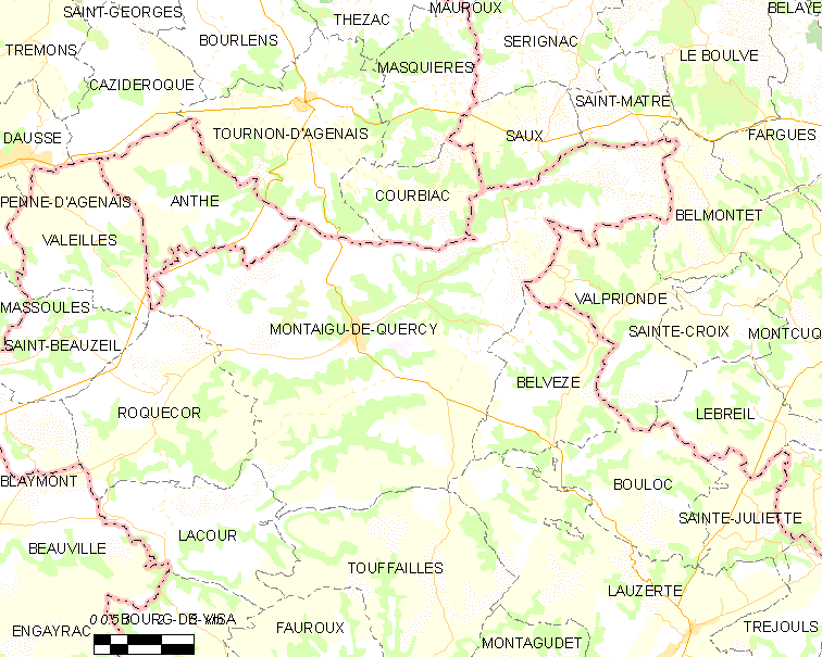 Map of French municipality Montaigu-de-Quercy